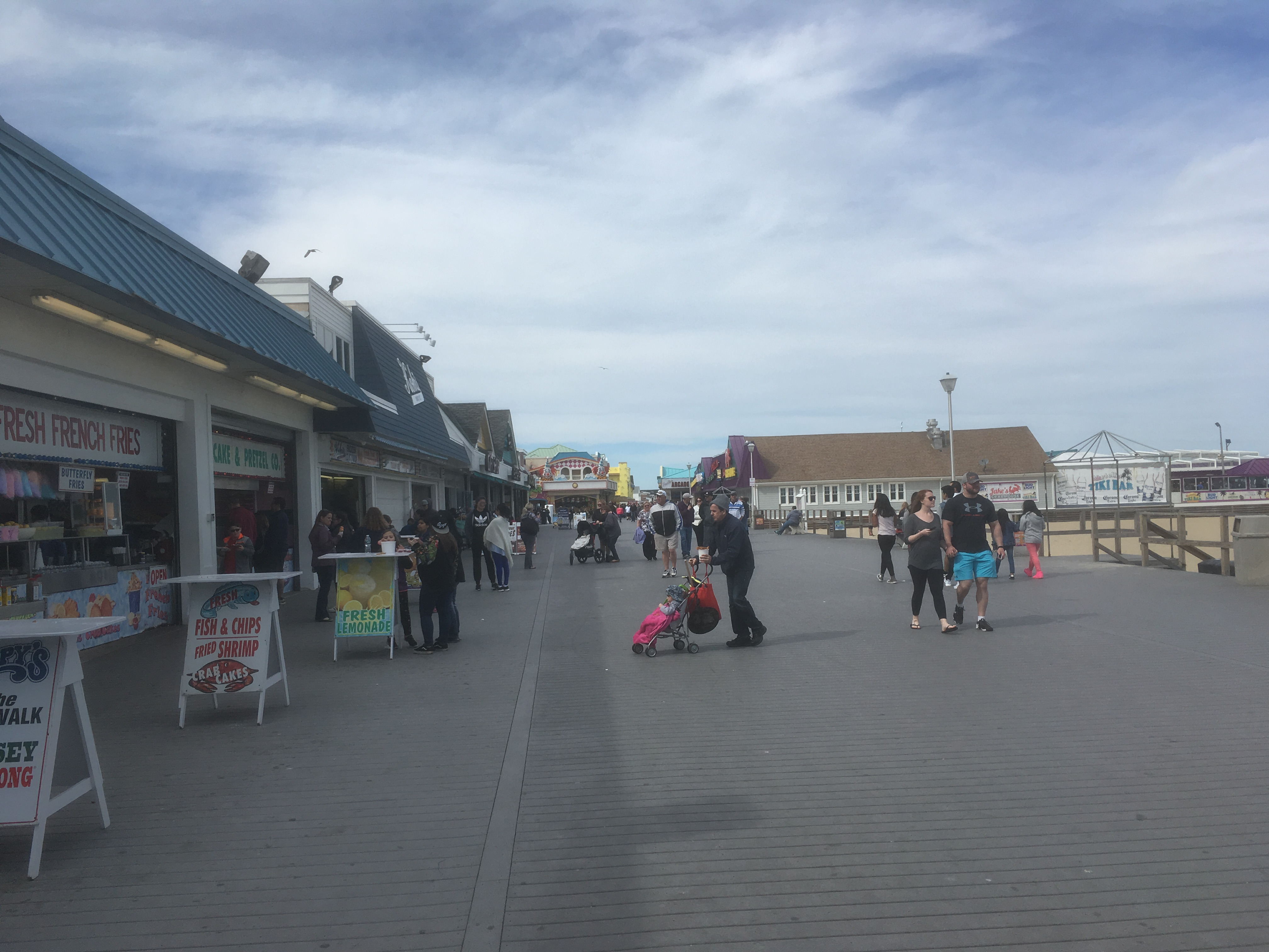 A view of the boardwalk in Point Pleasant Beach, New Jersey looking north toward Jenkinson's Aquarium